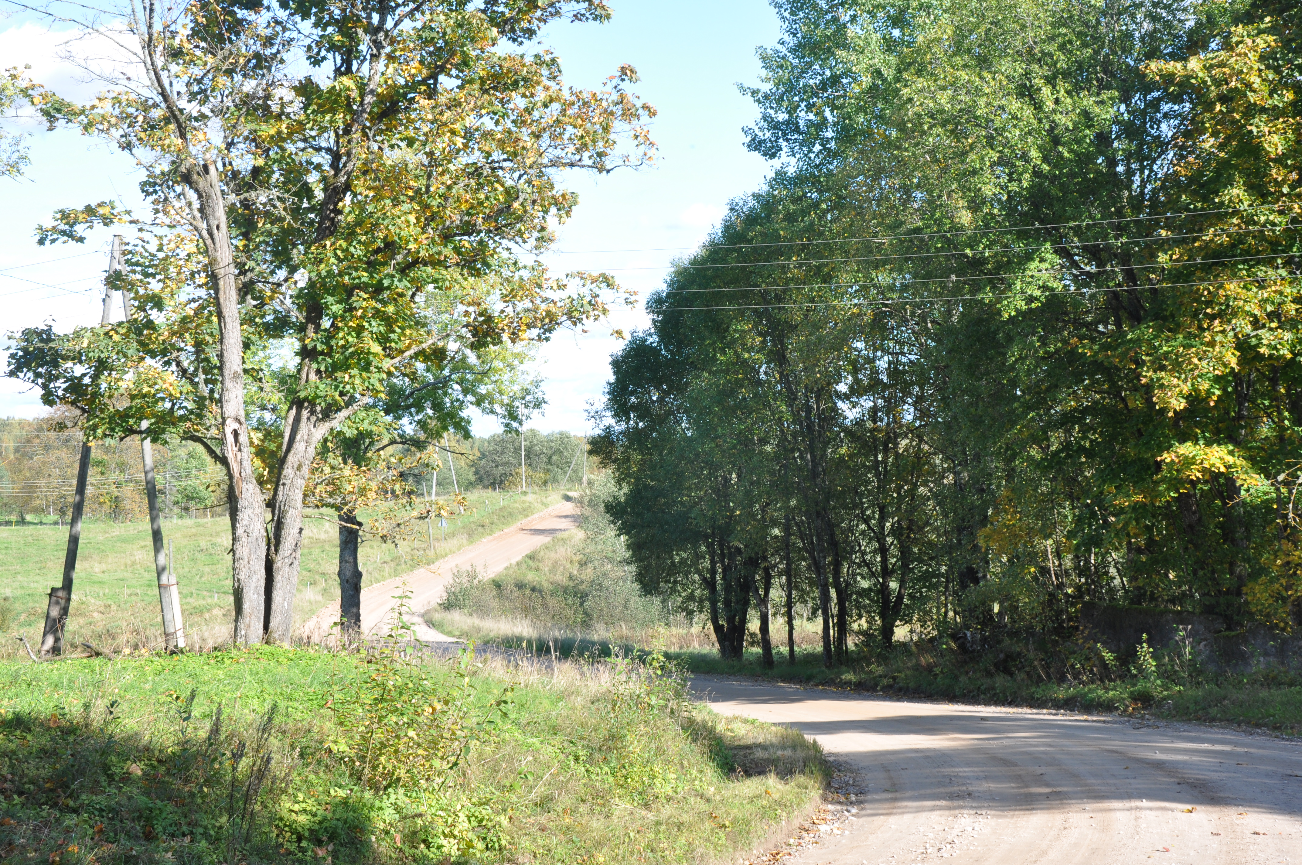 Road P31 near Katrīna